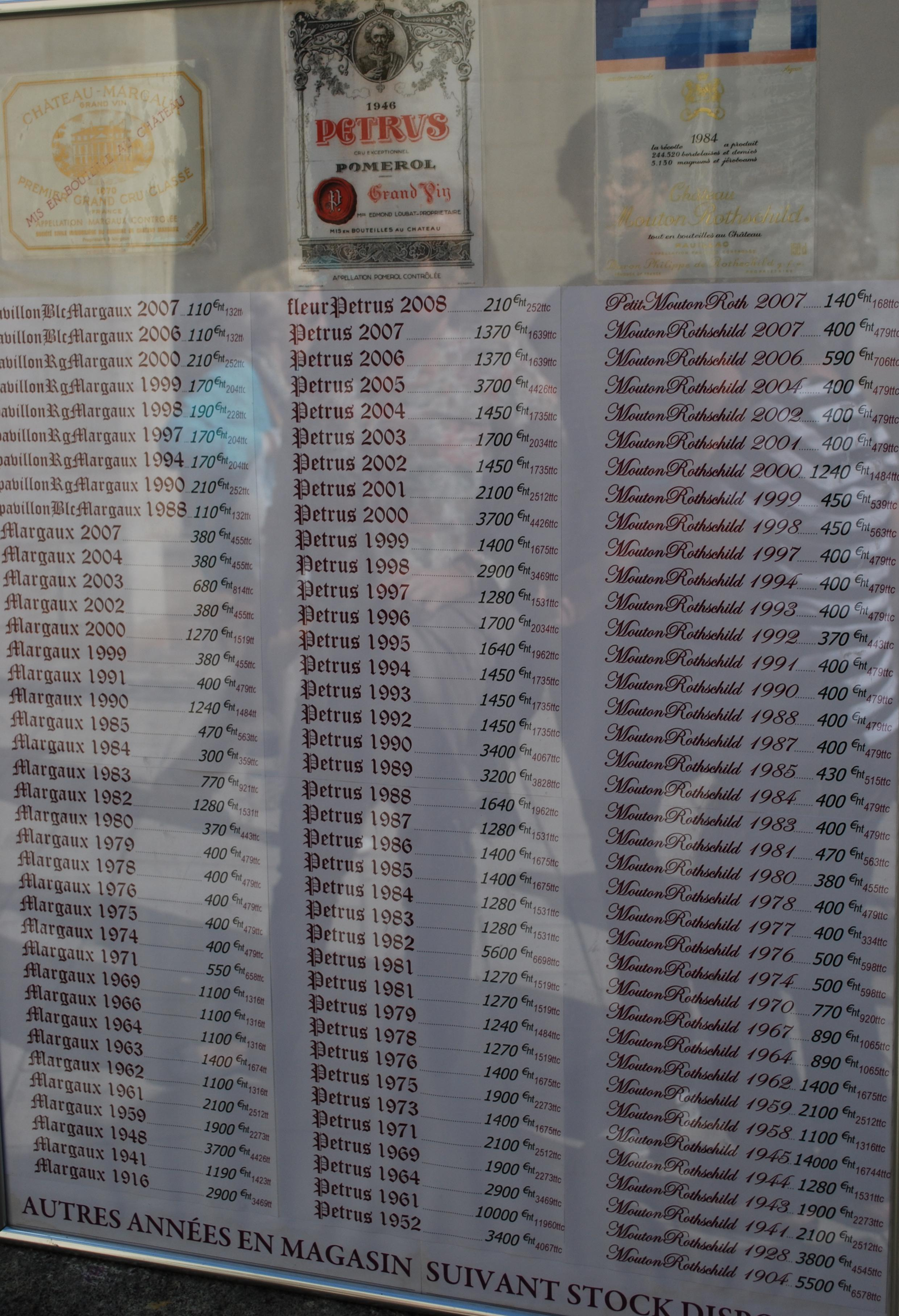 Vintage Wine Price List, St. Emilion